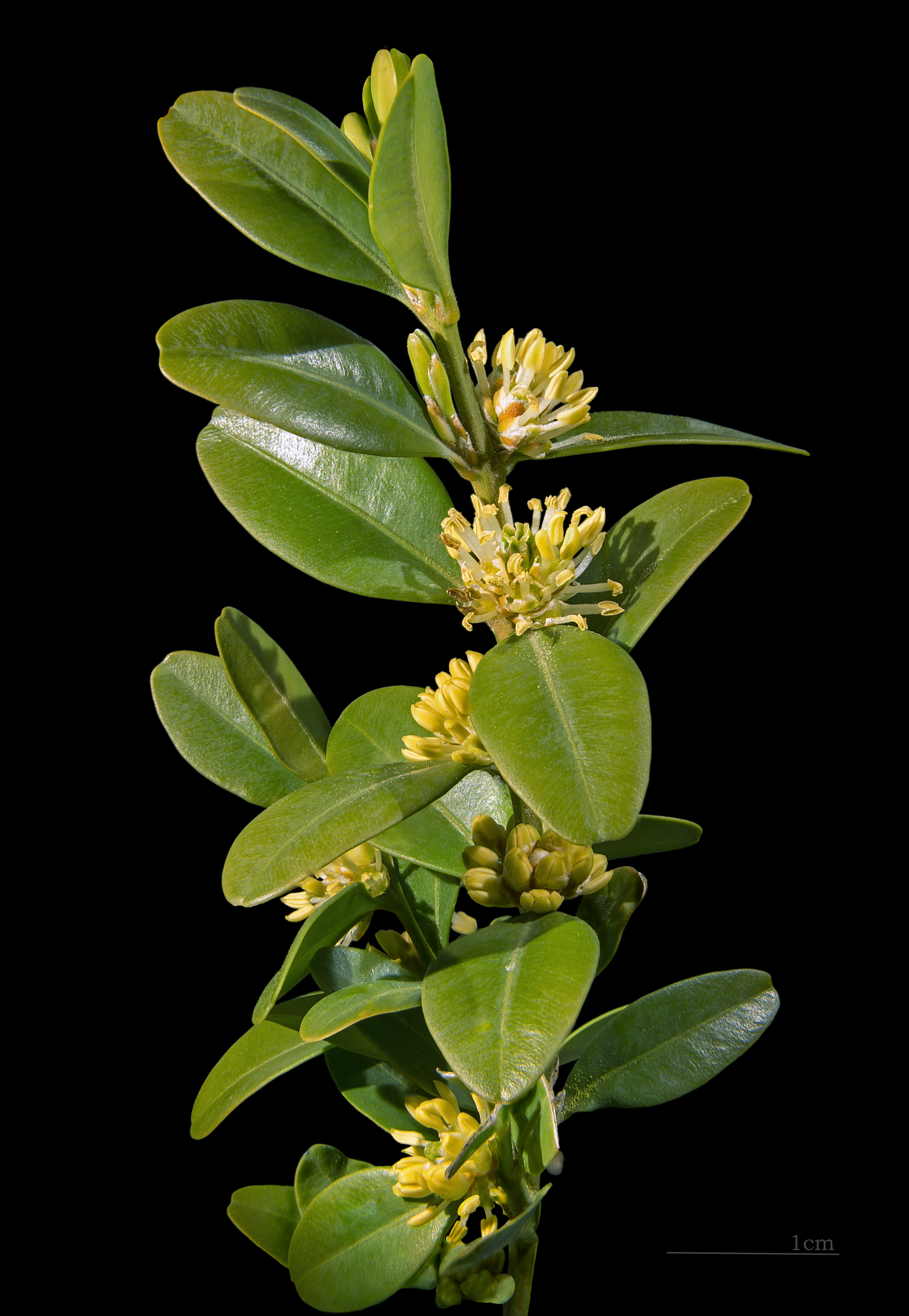 common box, flowers